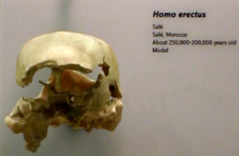 Taken at the David H. Koch Hall of Human Origins at the Smithsonian Natural History Museum.